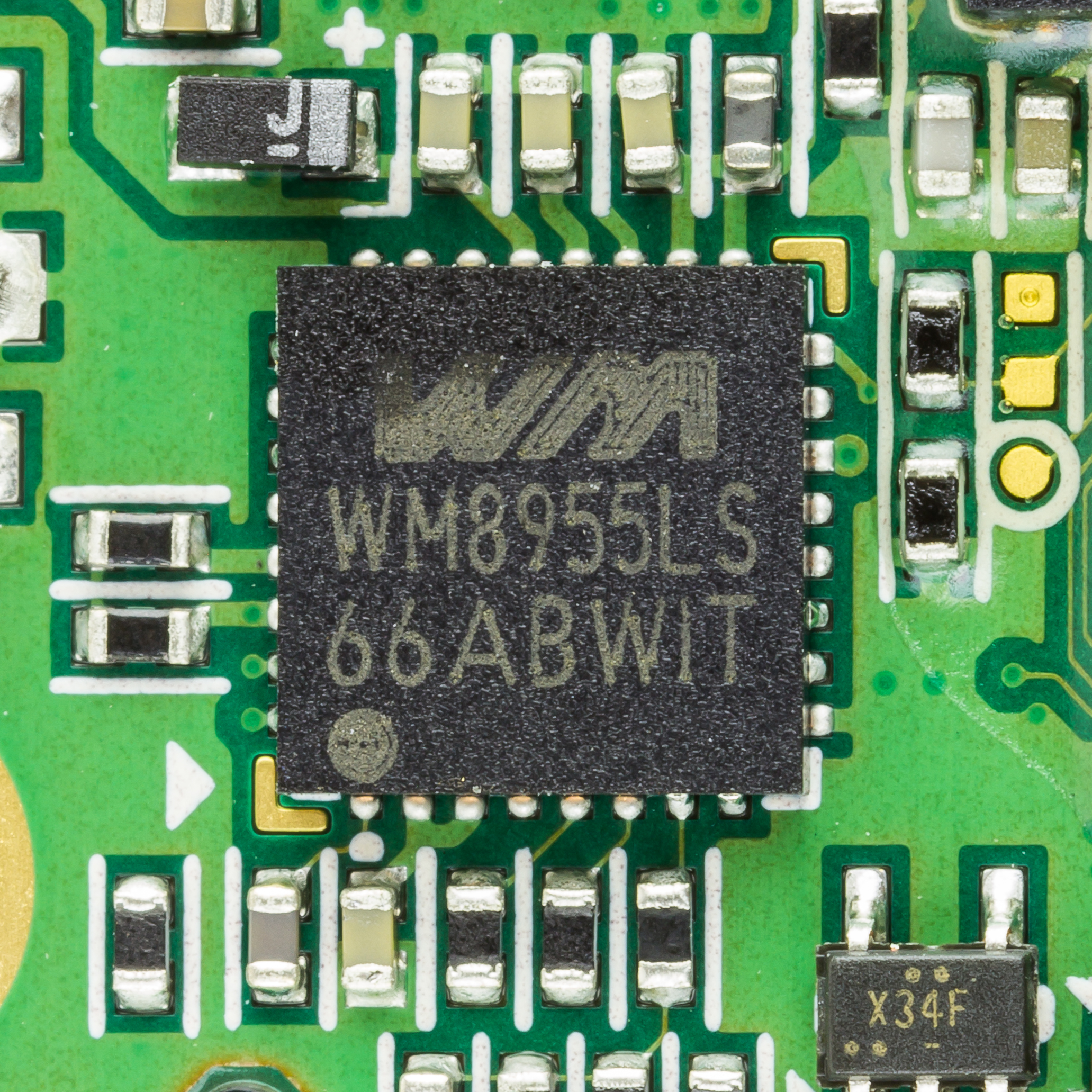 Samsung SGH-X660 - Wolfson WM8955LS - Stereo DAC For Portable Audio Applications